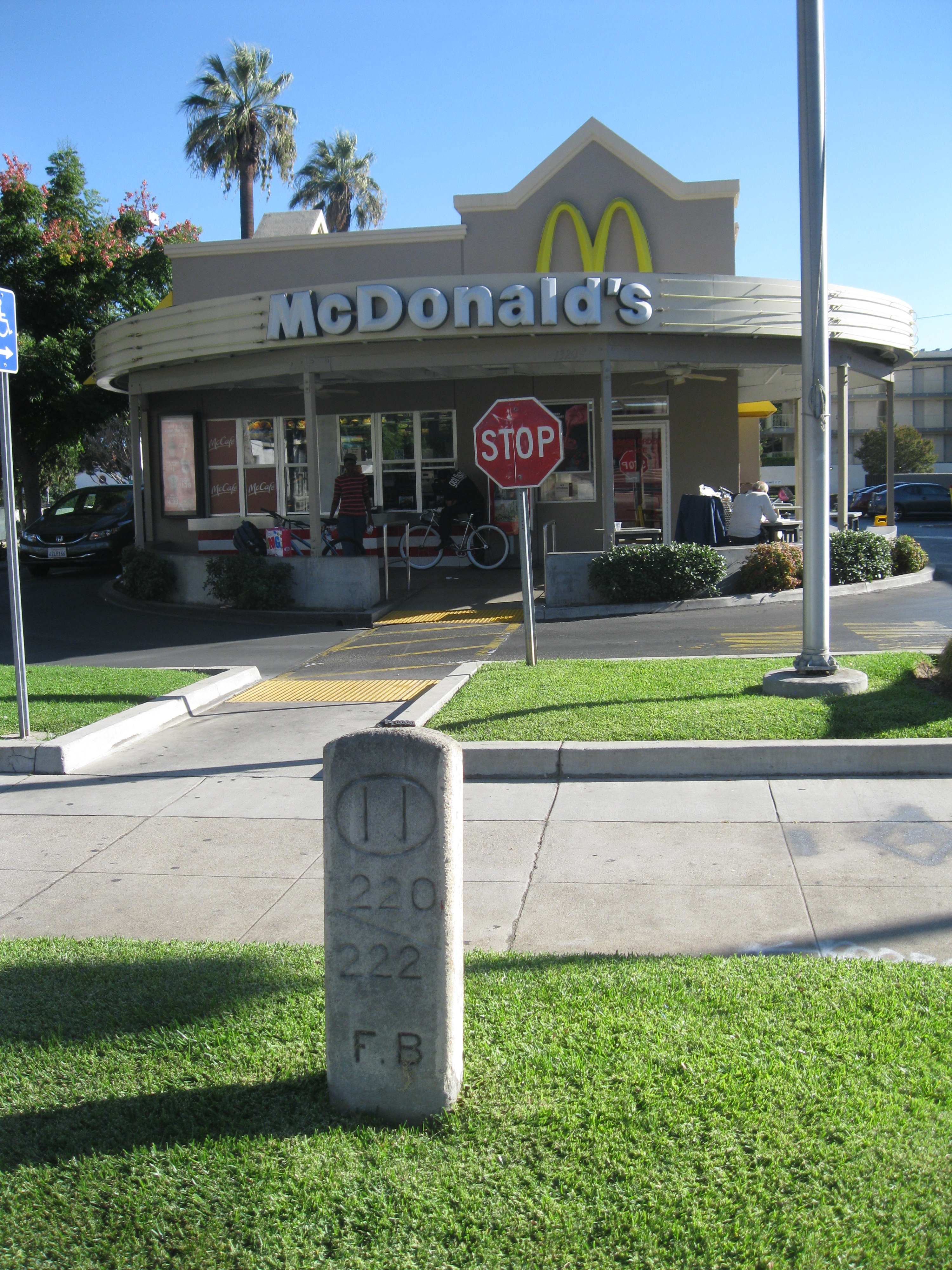 Foothill Boulevard Milestone (Mile 11) in Pasadena, California